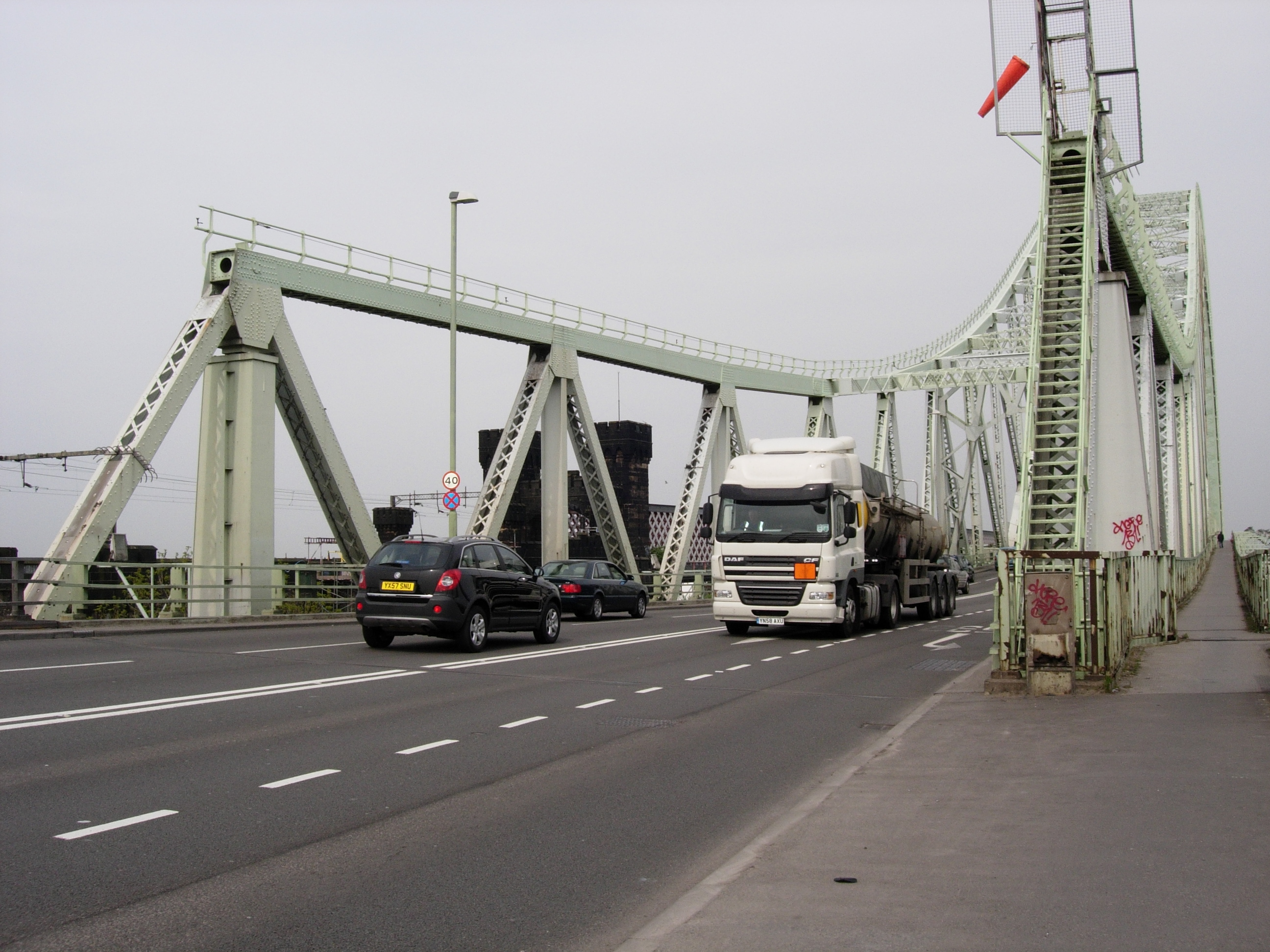 Jubilee Bridge taken from The Runcorn side